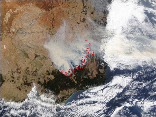 Bushfires in southeast Australia are burning out of control, threatening farmland, livestock, and homes in Victoria and New South Wales, Australia. More than 500 homes have been destroyed, and several towns have fires within one or two kilometers of the city limits. Erratic winds push the fires, some of which have been burning for weeks, one way and then another, frustrating and exhausting the hundreds of firefighters battling the blazes. This Moderate Resolution Imaging Spectroradiometer (MODIS) image of the fires (red dots) was acquired January 22, 2003, around 11:30 a.m. local time. Image courtesy MODIS Rapid Response Team at NASA GSFC. Image:Bushfires Southeastern Australia.jpg - this image shows the same area a couple weeks later, on February 2, 2003.